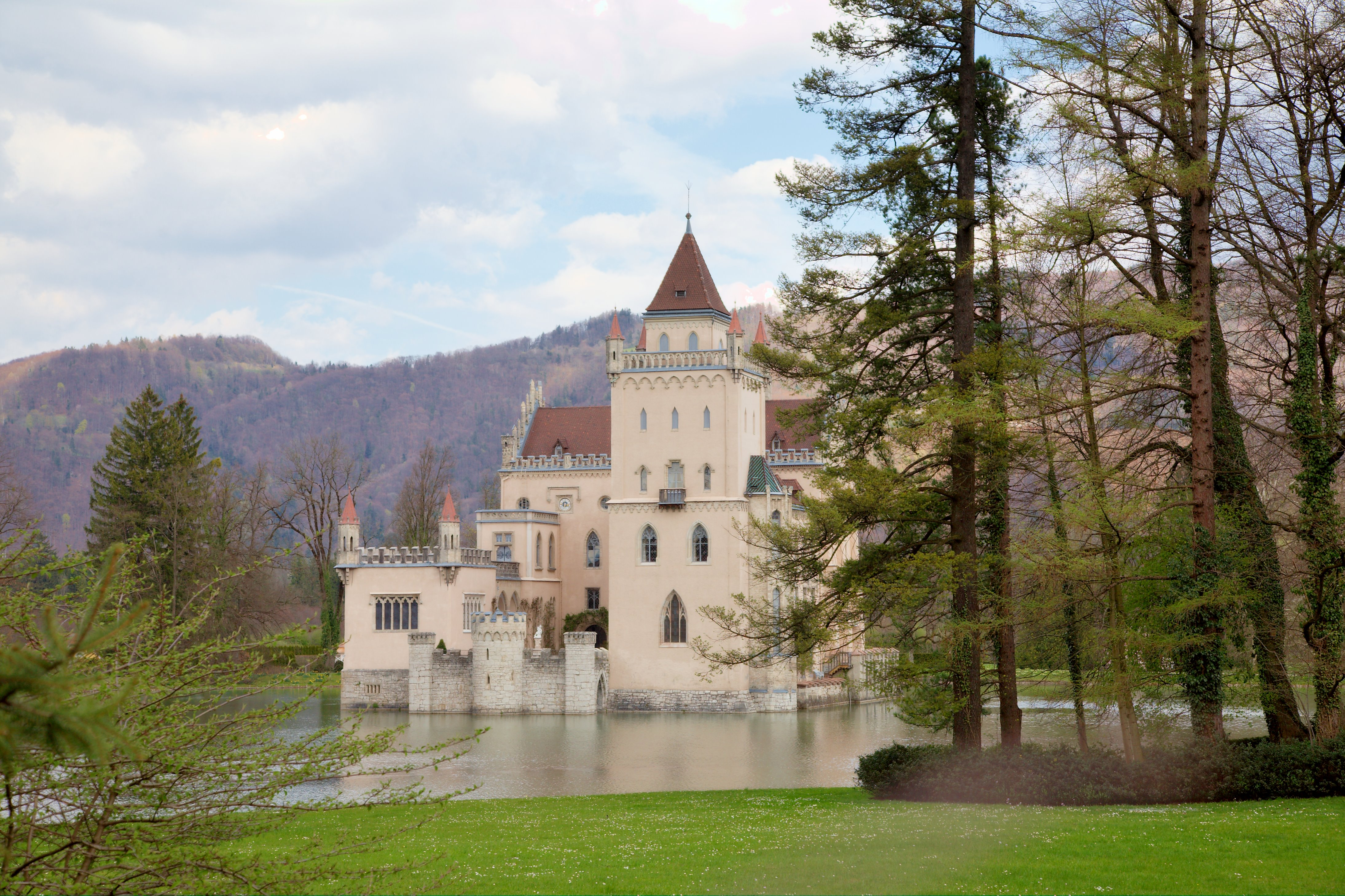 Anif Palace, south-western aspect